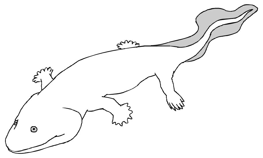 Description: Picture made by mateus zica in October 2005 Mateus Zica Wikipedia User Page is: This image is free to use in anywhere. If you gonna use it ,just send me a email telling me where its gonna be used.Thanks. Source: Mateus Zica